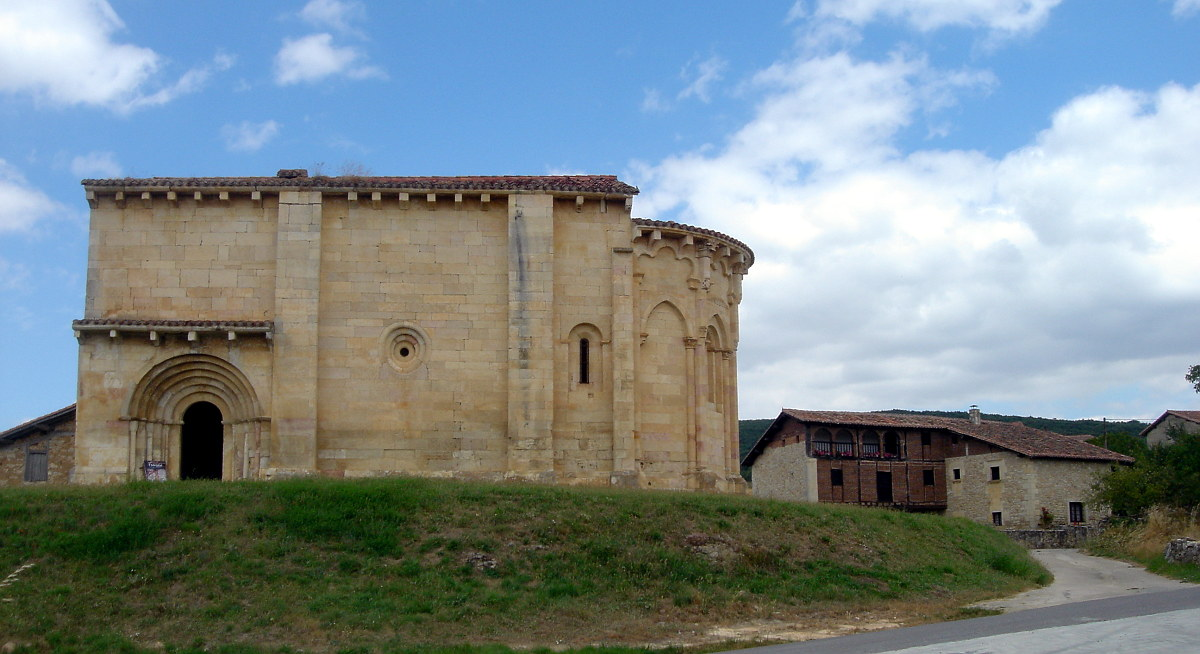 Ermita de la Concepción (San Vicentejo), San Vicentejo (Trebiñu)